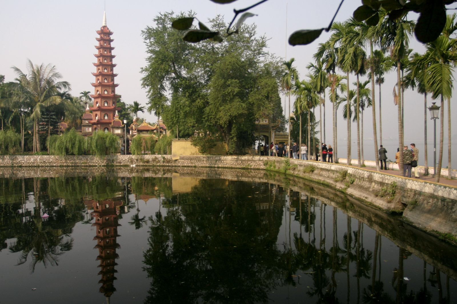 Tran Quoc Pagoda on West Lake